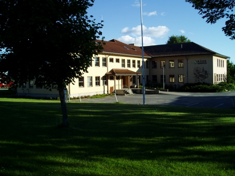 Råde herredshus, Råde Norway. Photo by JohnM 16:44, 29 June 2006 (UTC)